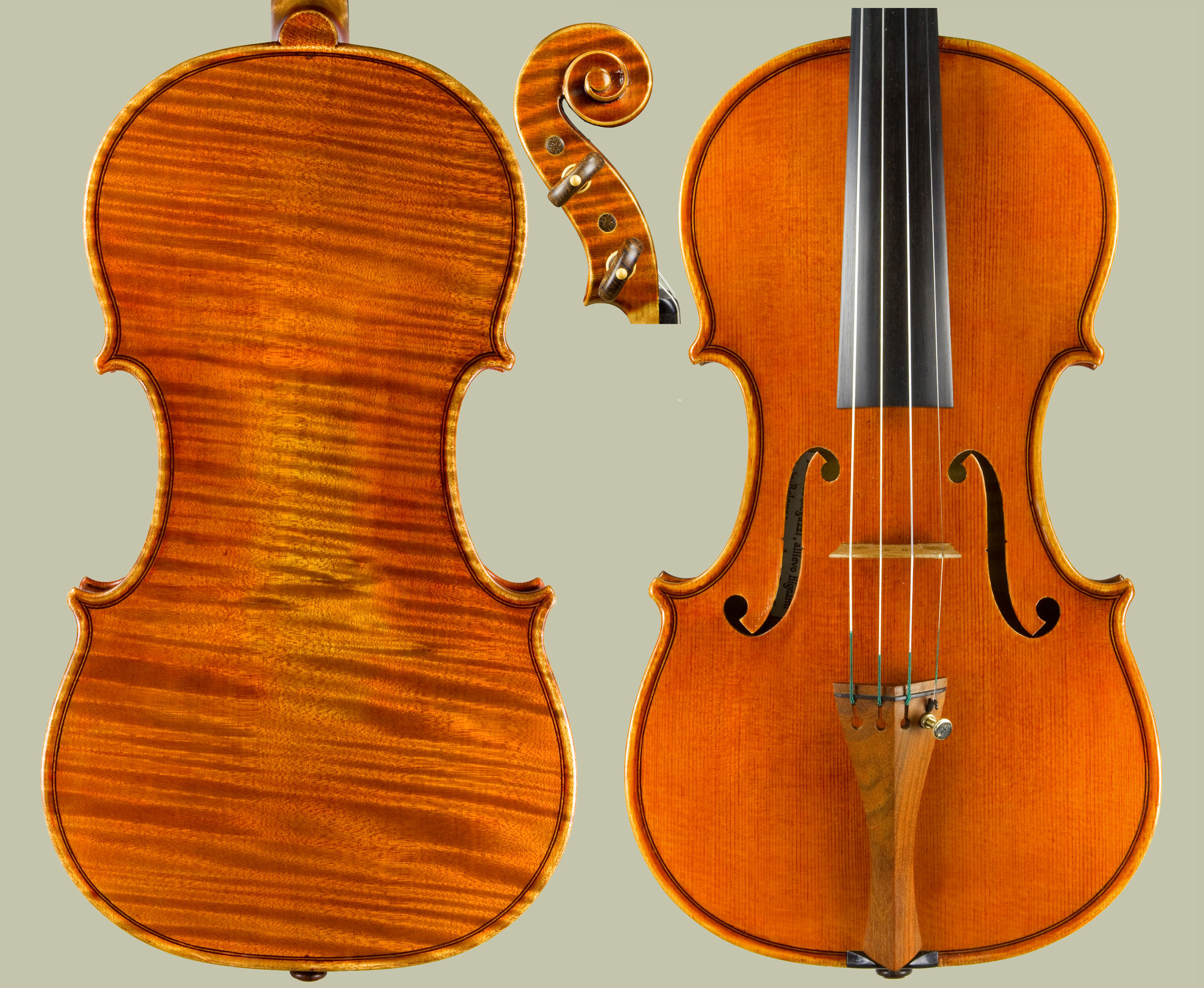 High resolution image of a violin made by Roberto Regazzi, completed in 2008